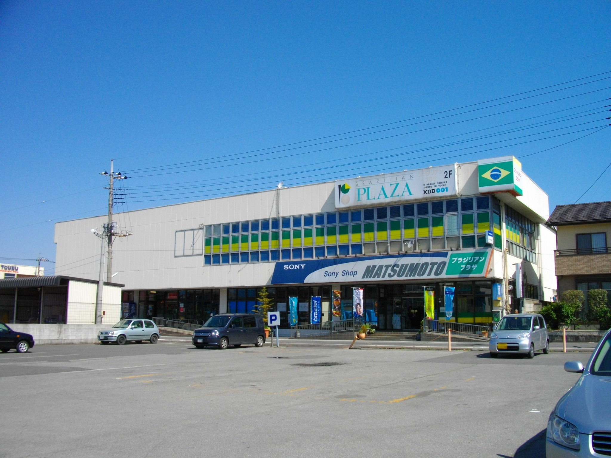 Brazilian Plaza in Oizumi